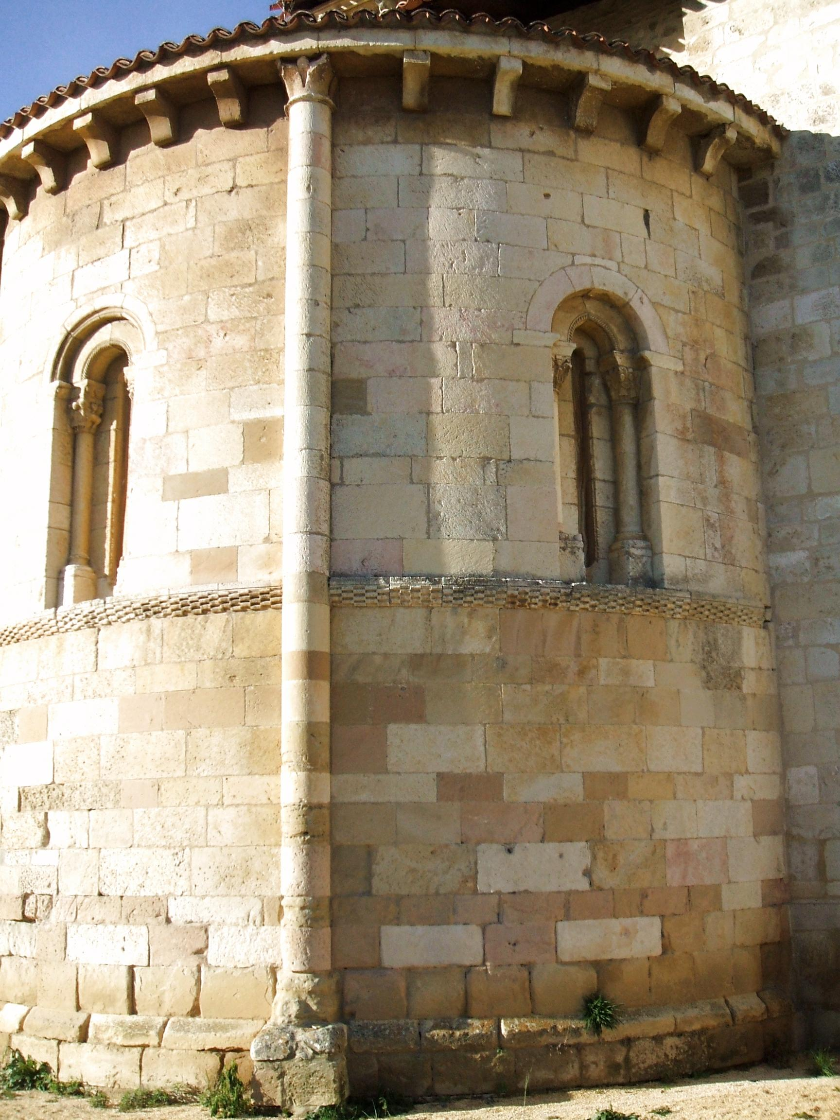 Ábside de la iglesia de la Basílica de San Prudencio de Armentia, en Vitoria-Gasteiz (País Vasco, España)